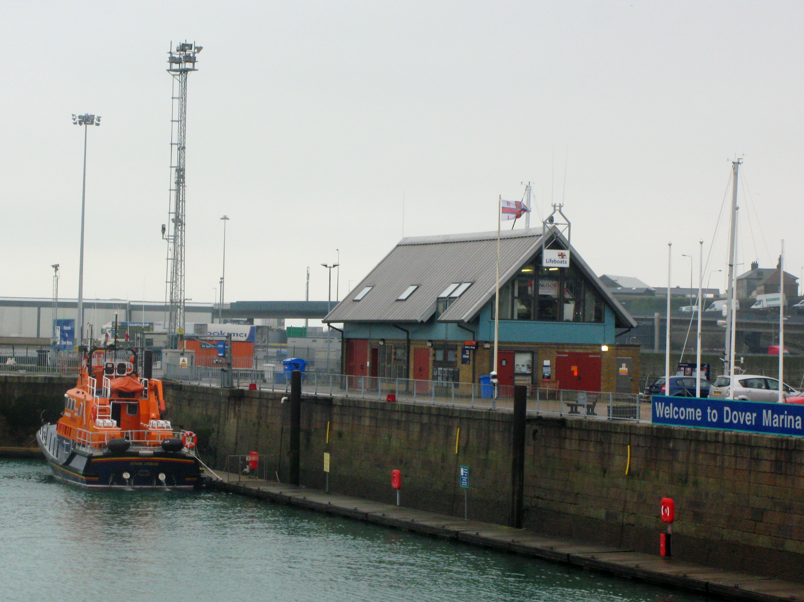 Severn Class lifeboat 17-09 City of London II is moored alongside Dover Lifeboat Station.